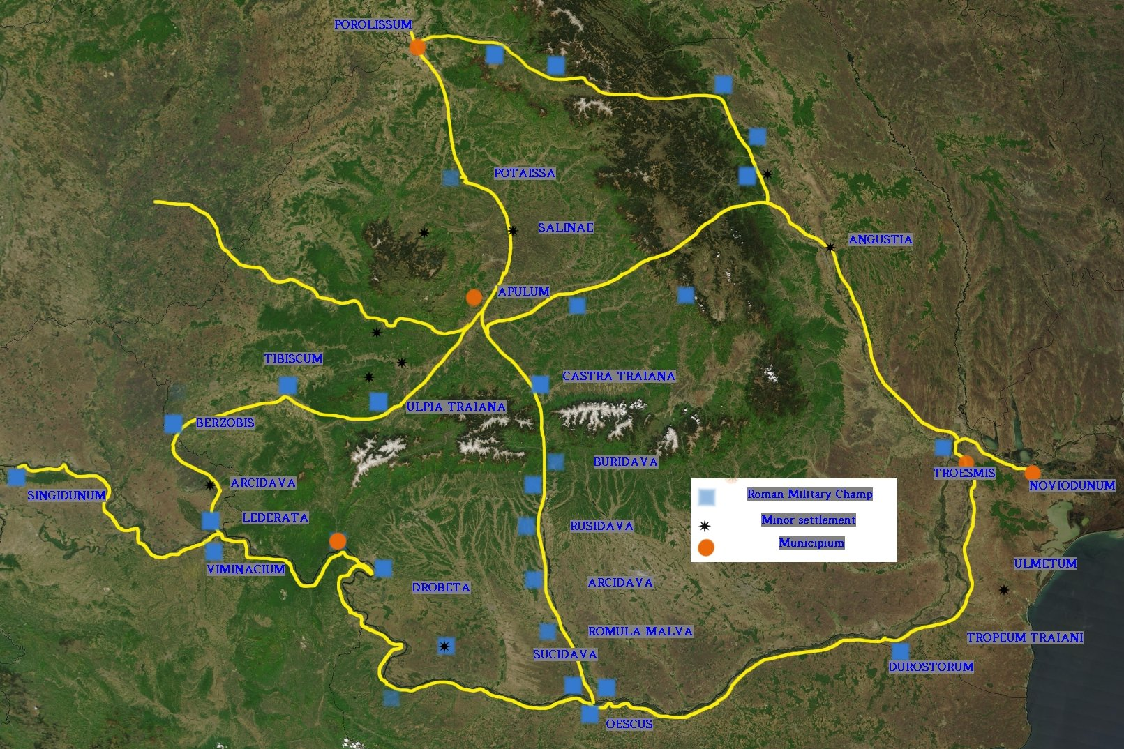 Map of Roman roads in northeast Balkans